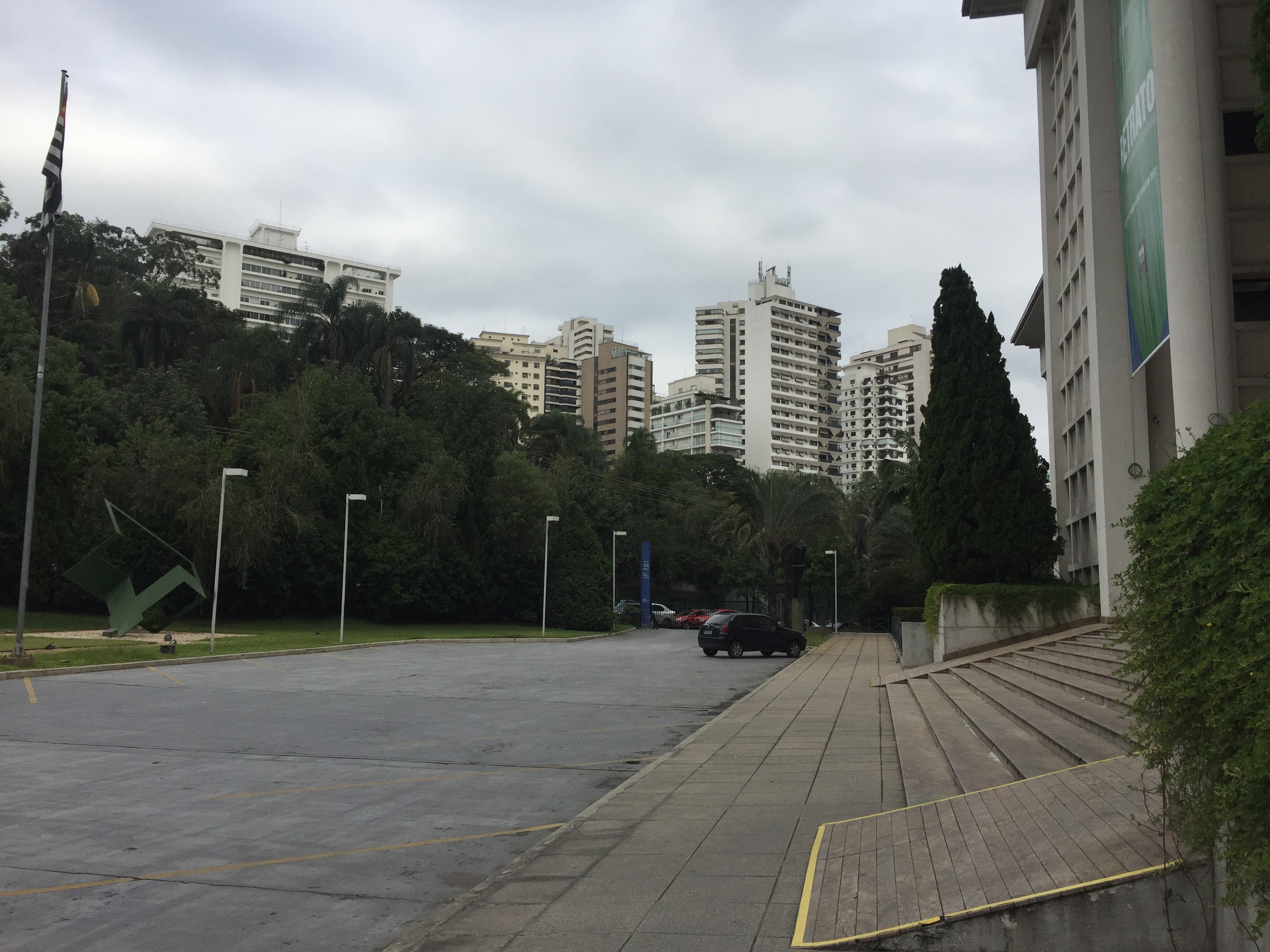 Foto exterior do museu